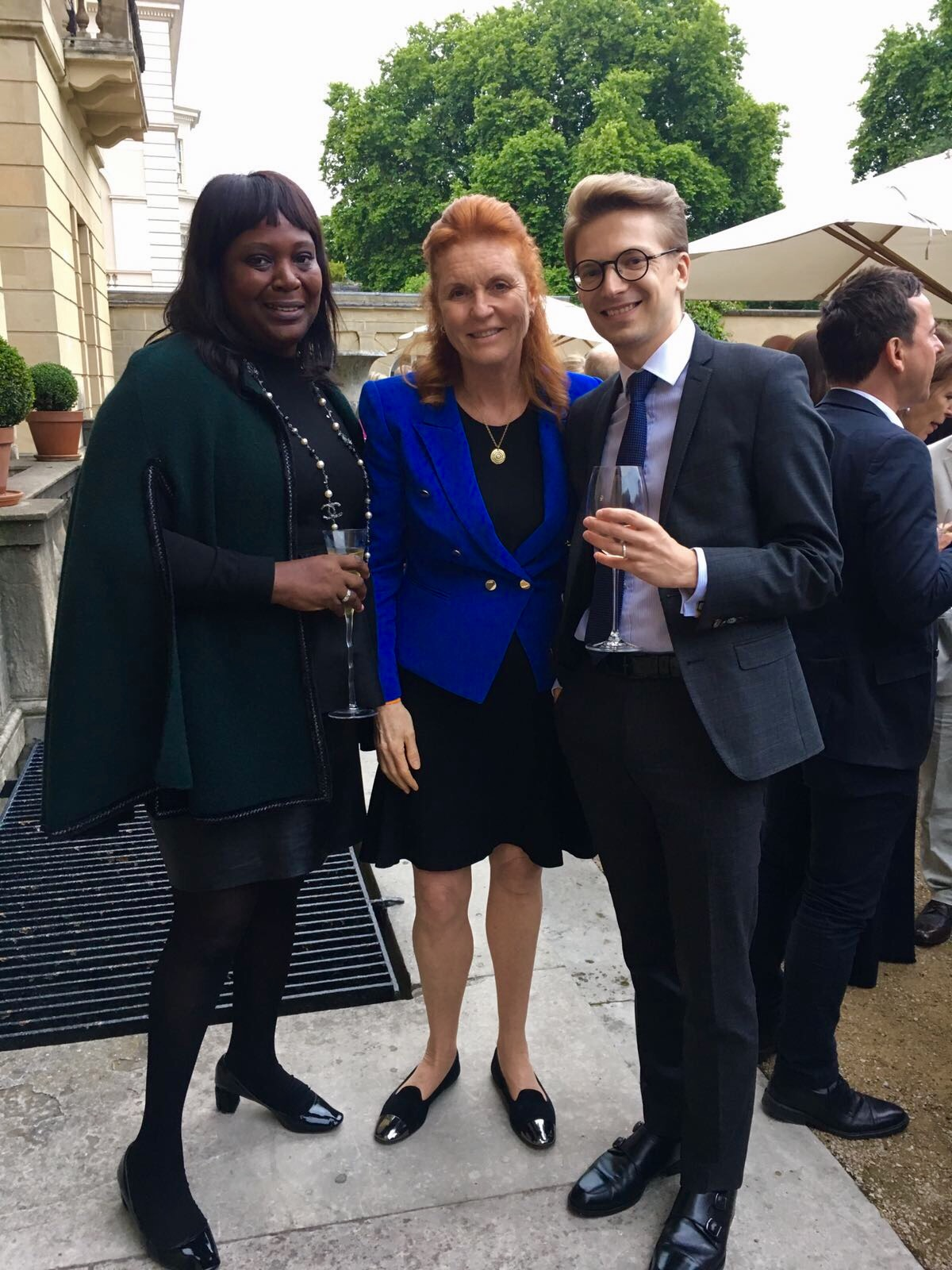 Heather Melville with Sarah, Duchess of York and Marcis Skadmanis in 2017, Lancaster House, London.